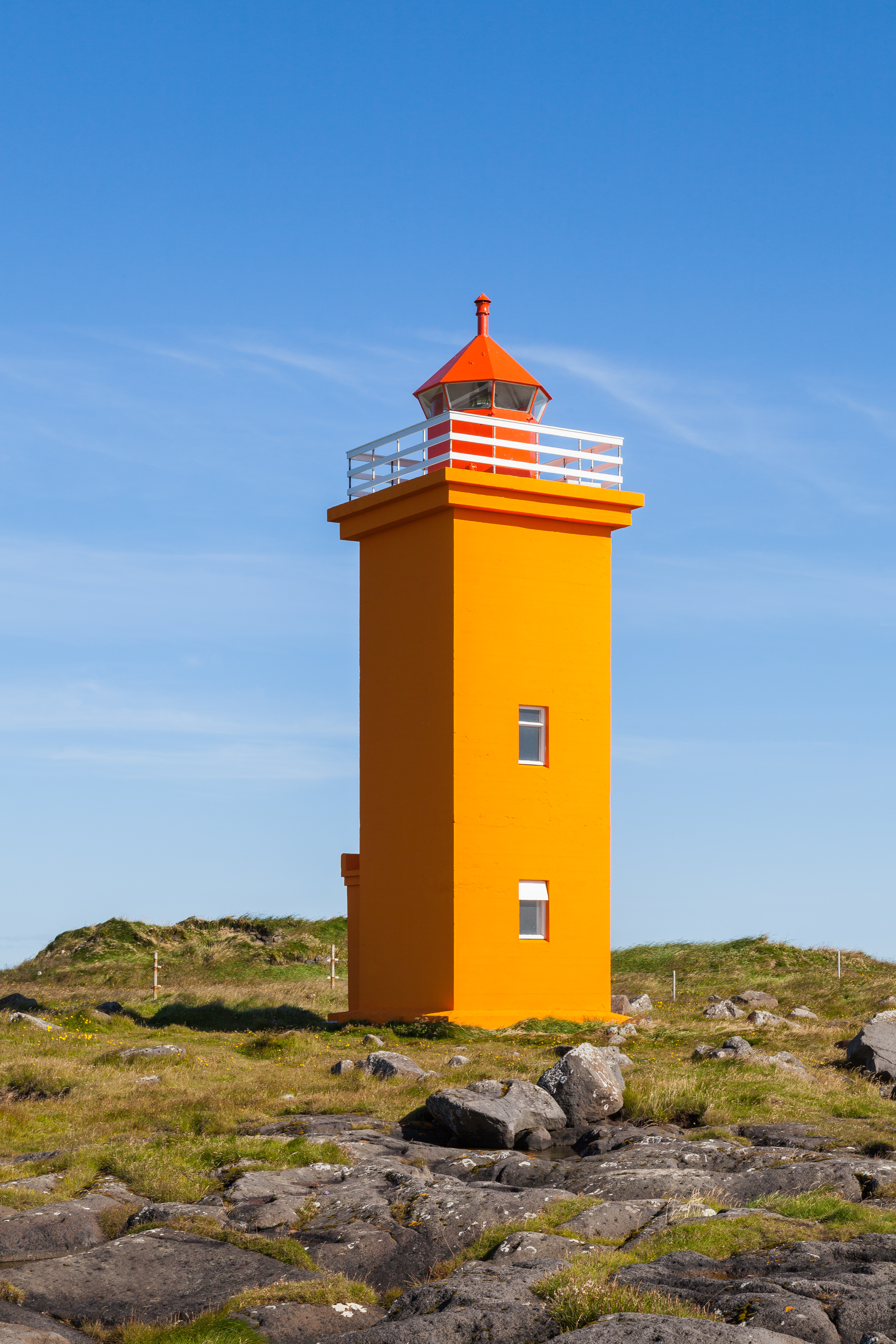 Stafnes lighthouse, Suðurnes, Iceland